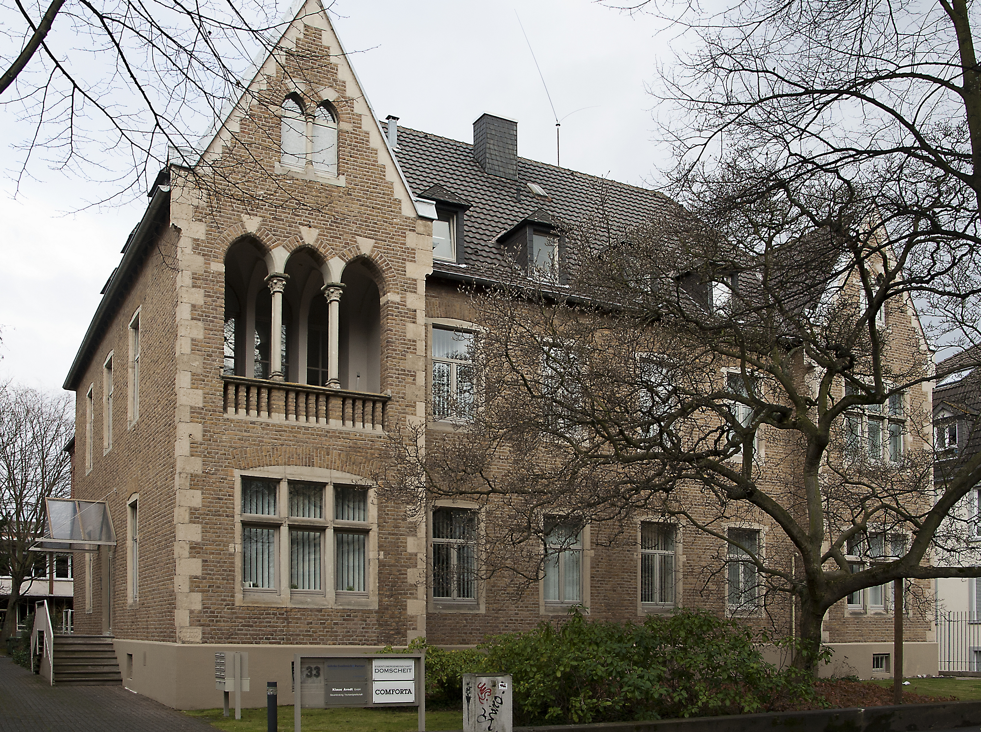 Dürenstrasse 33, Bonn-Bad Godesberg